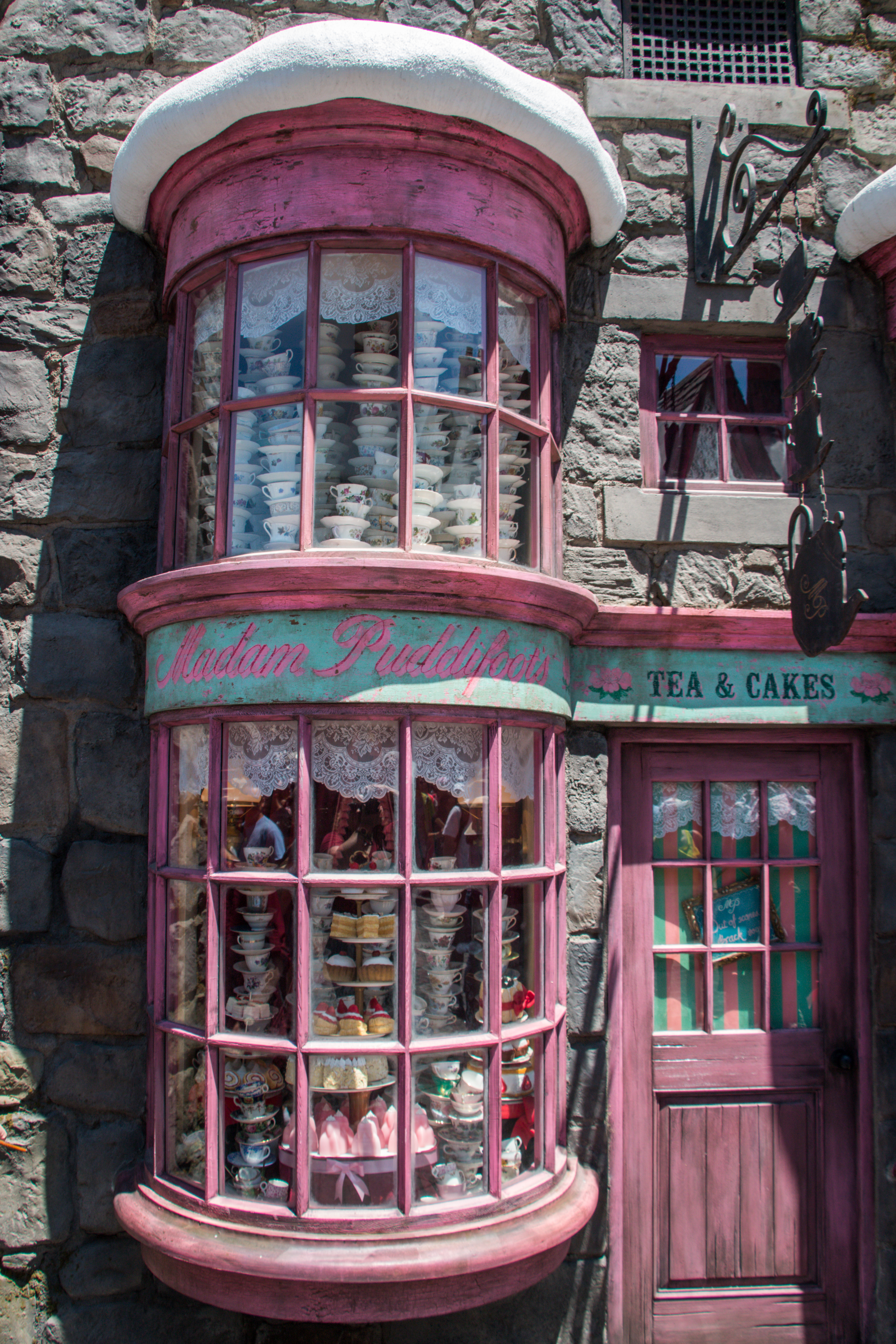 A window displays in Hogsmeade at the Wizarding World of Harry Potter at Universal Studios Hollywood.